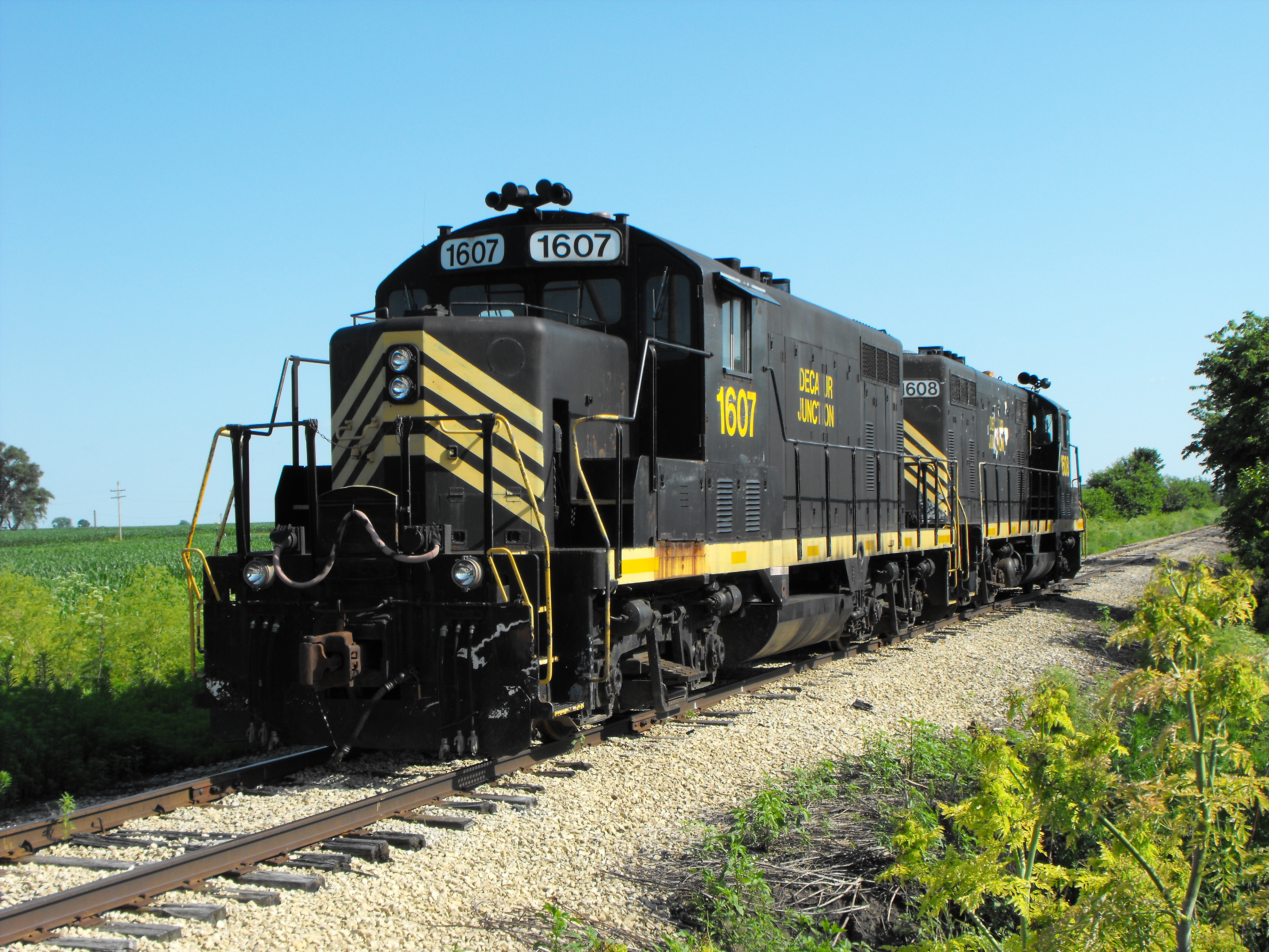 Decatur Junction GP11s #1607 and #1608.